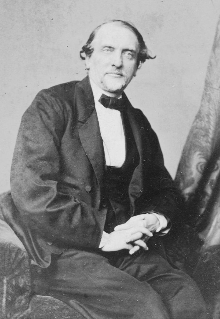 Portrait of Adolphe Joanne.